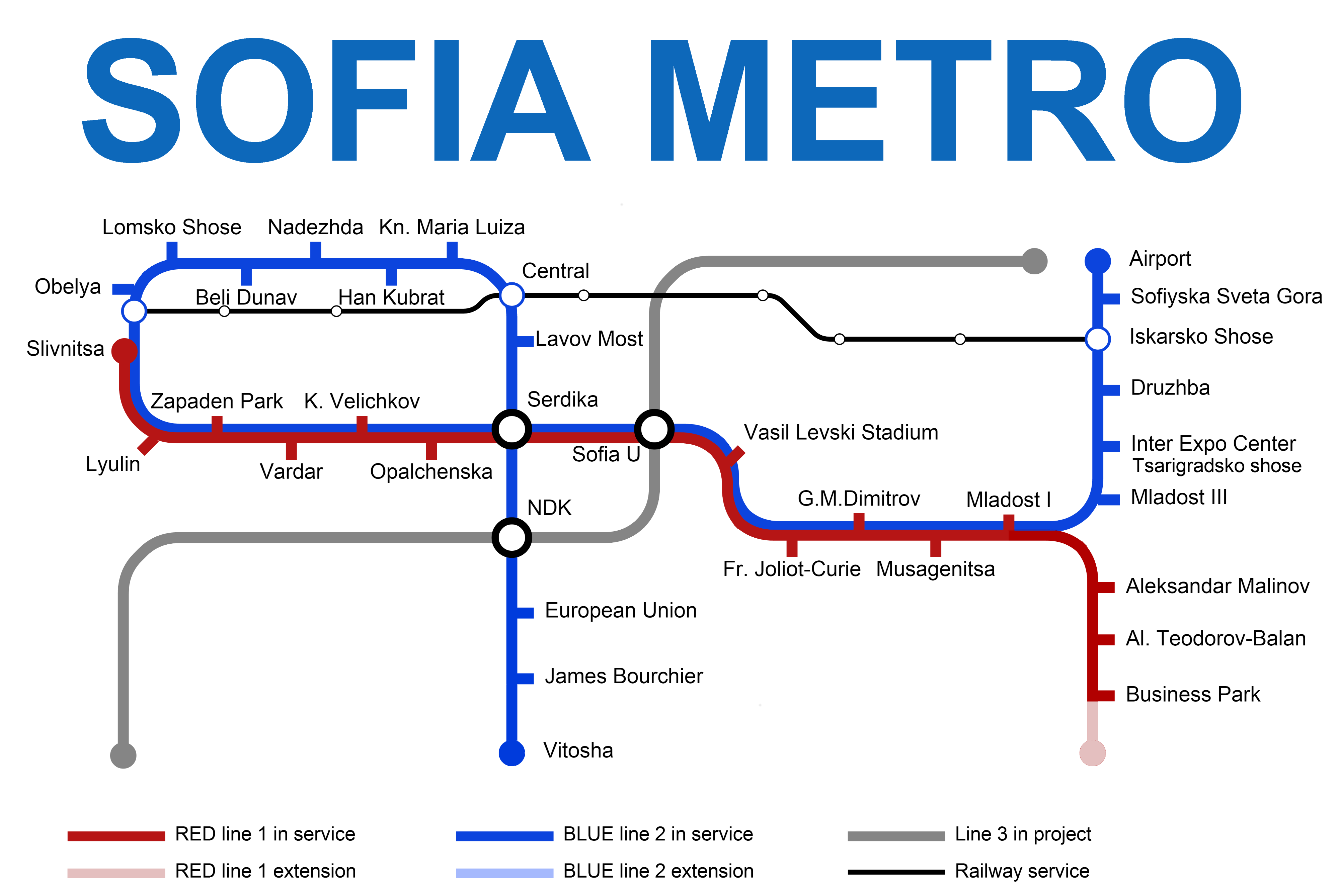 Sofia Metro map